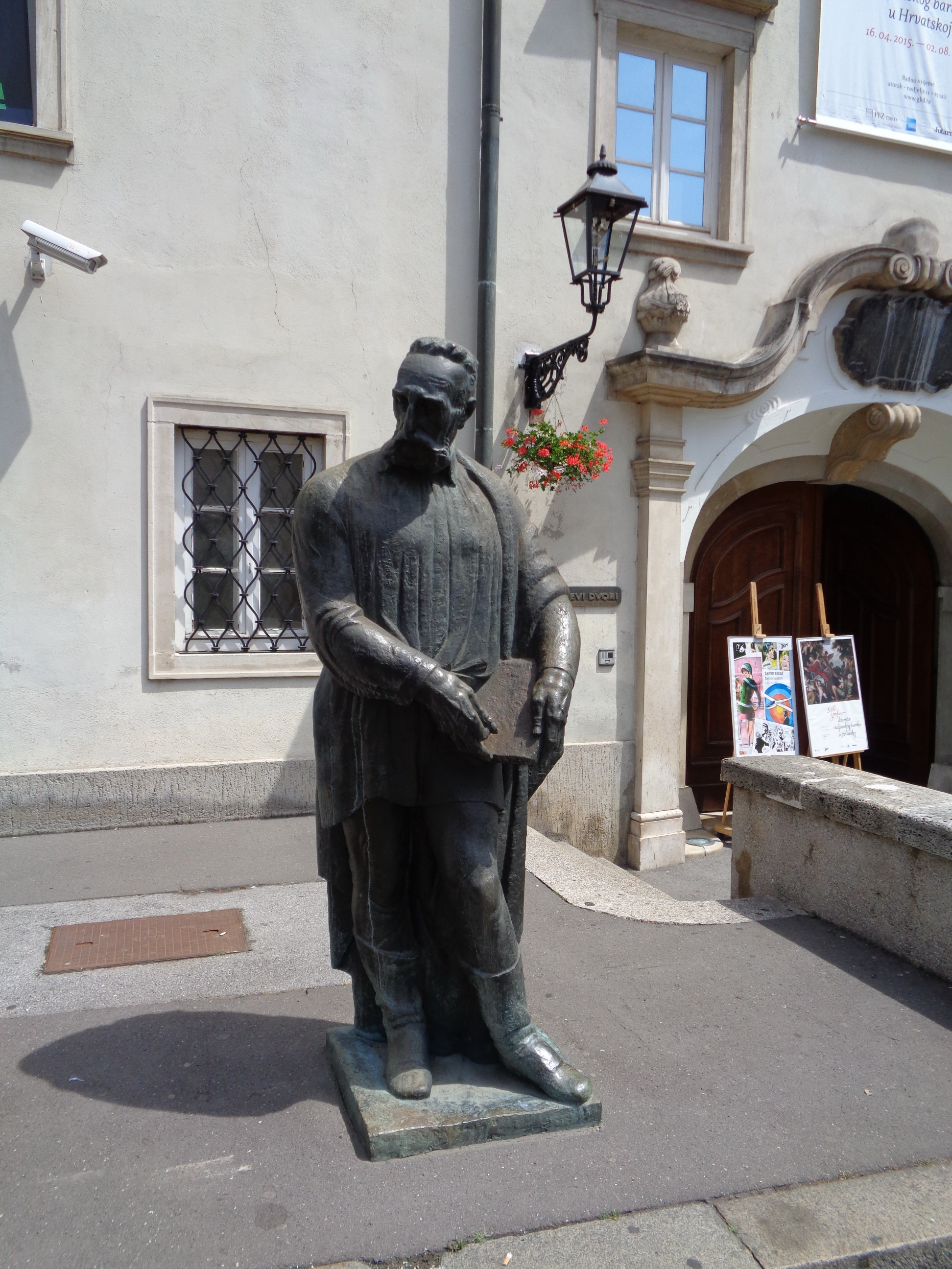 Juraj Julije Klović-Croata /George Julius Clovich/ (1498-1578), Croatian illuminator, miniaturist and painter, mostly active in Italy under the name Giulio Clovio - bronze statue in front of Klovićevi Dvori Gallery, Jesuit Square 4, Zagreb; work of Frane Kršinić from 1928/1930